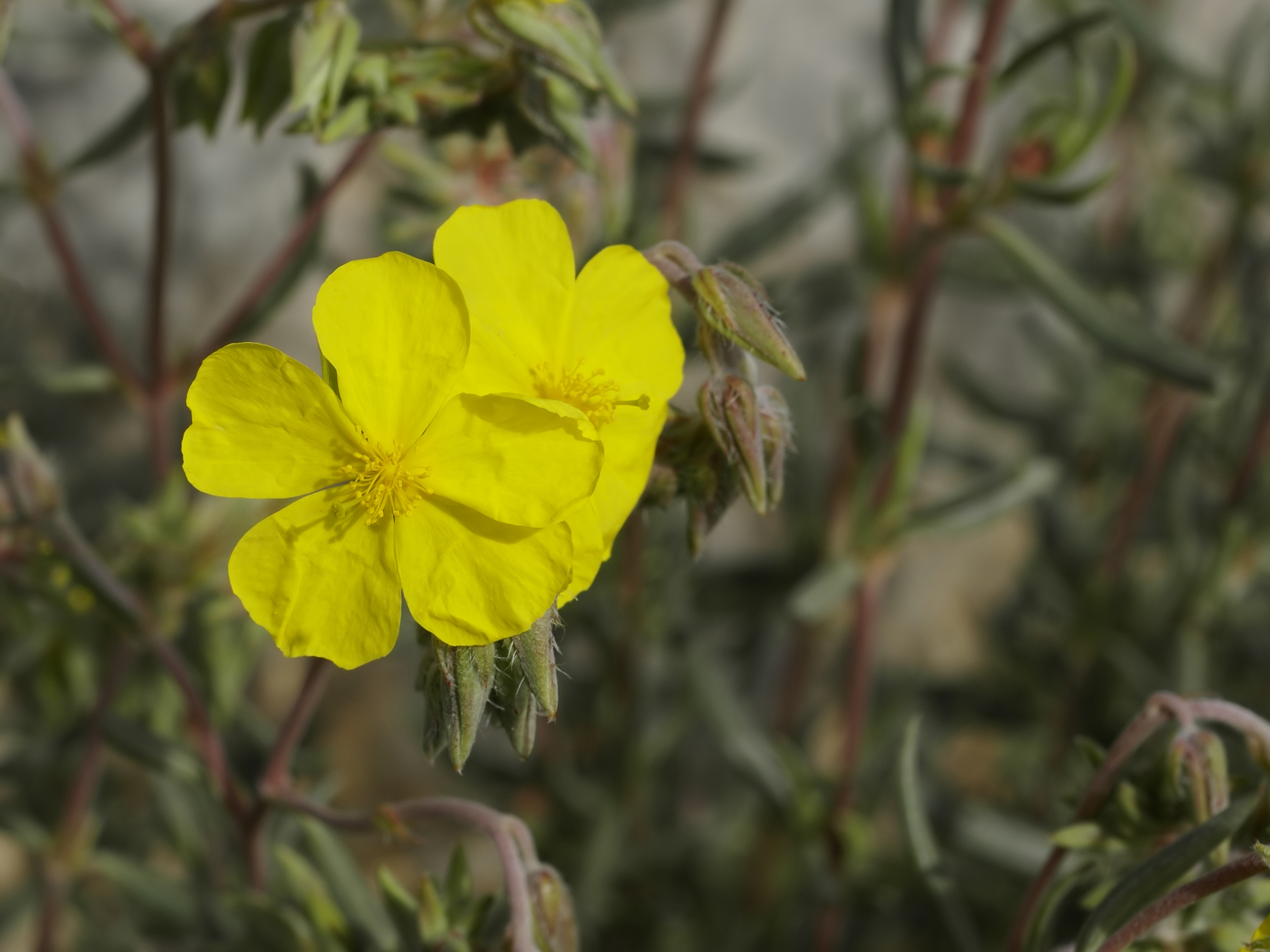 near el Perelló, Catalonia, Spain